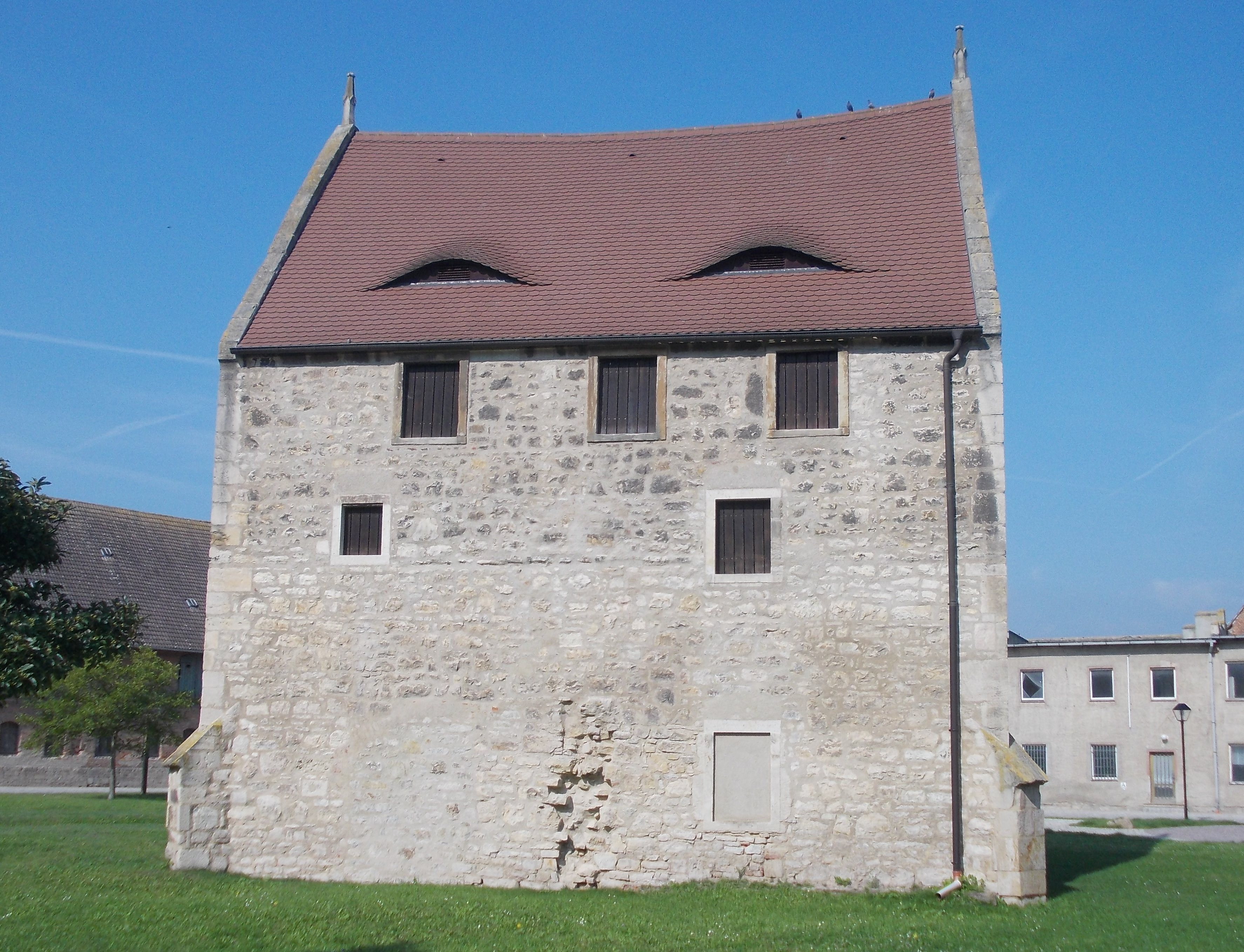 Gothic House in Schulpforte (Naumburg, district: Burgenlandkreis, Saxony-Anhalt)